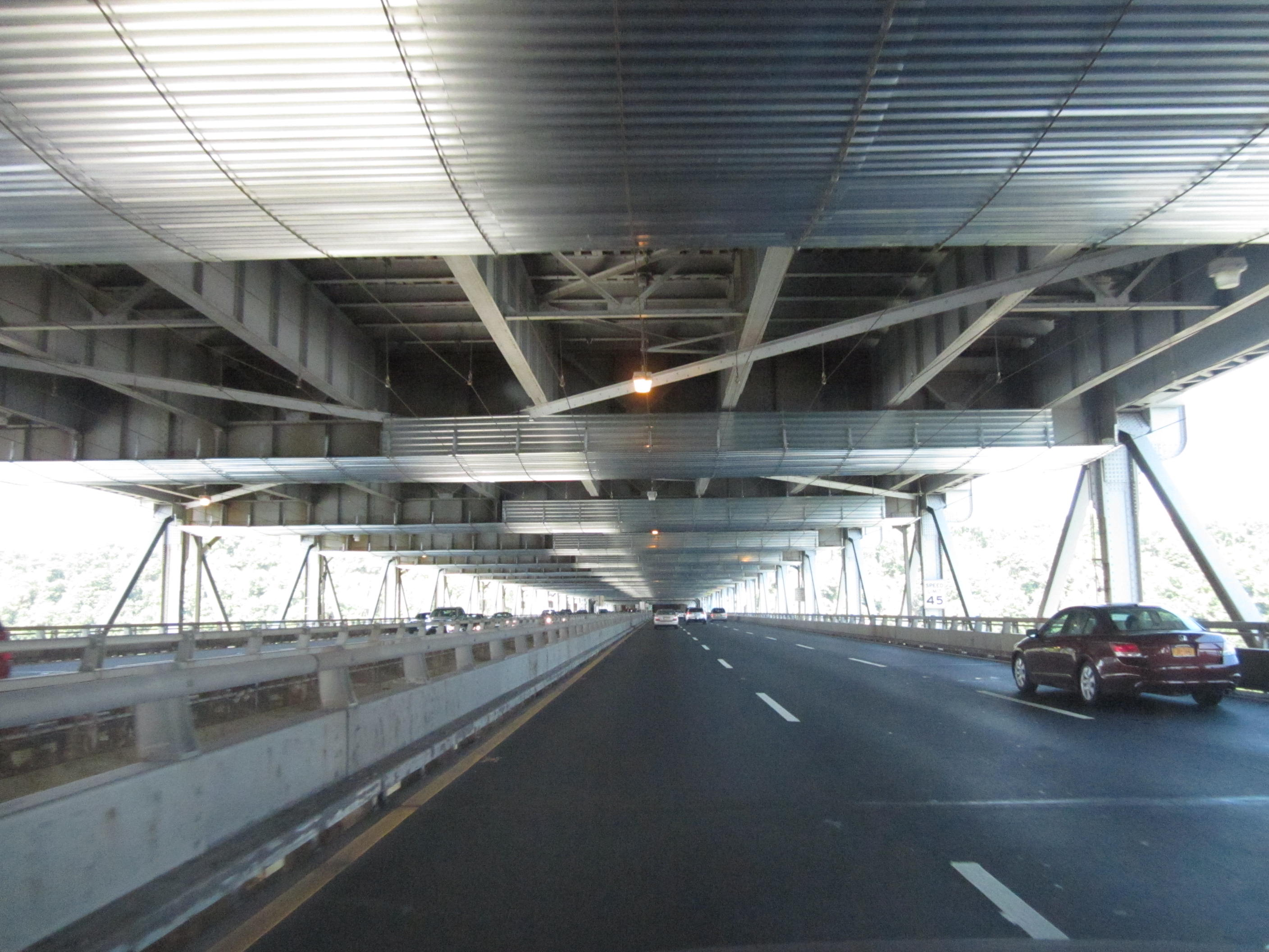 Interstate 95 - New Jersey